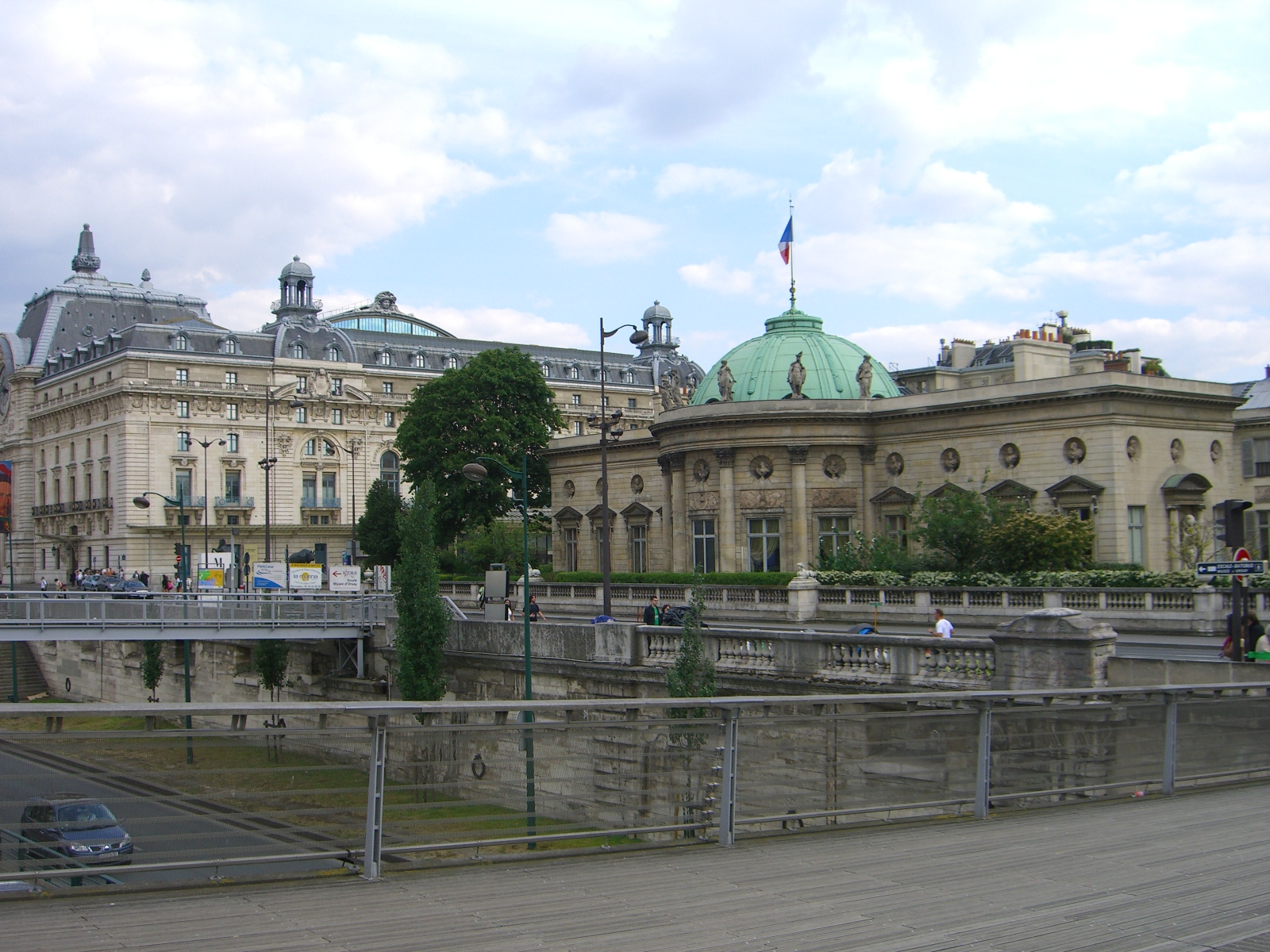 The site of French Legion of Honour